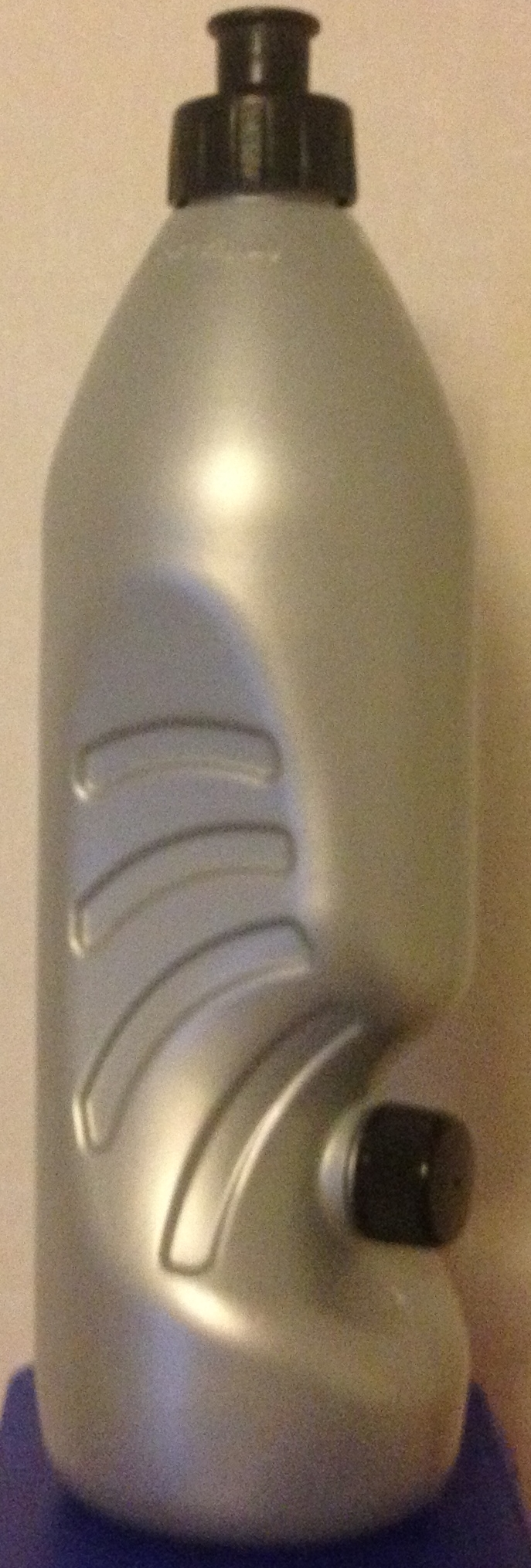 "Binibottle". A water bottle able to be filled from 2 openings